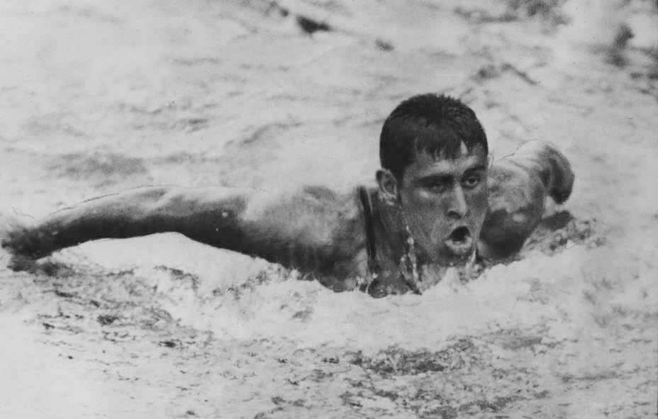 1936 Press Photo John Higgins in 220 yard breaststroke swim for record